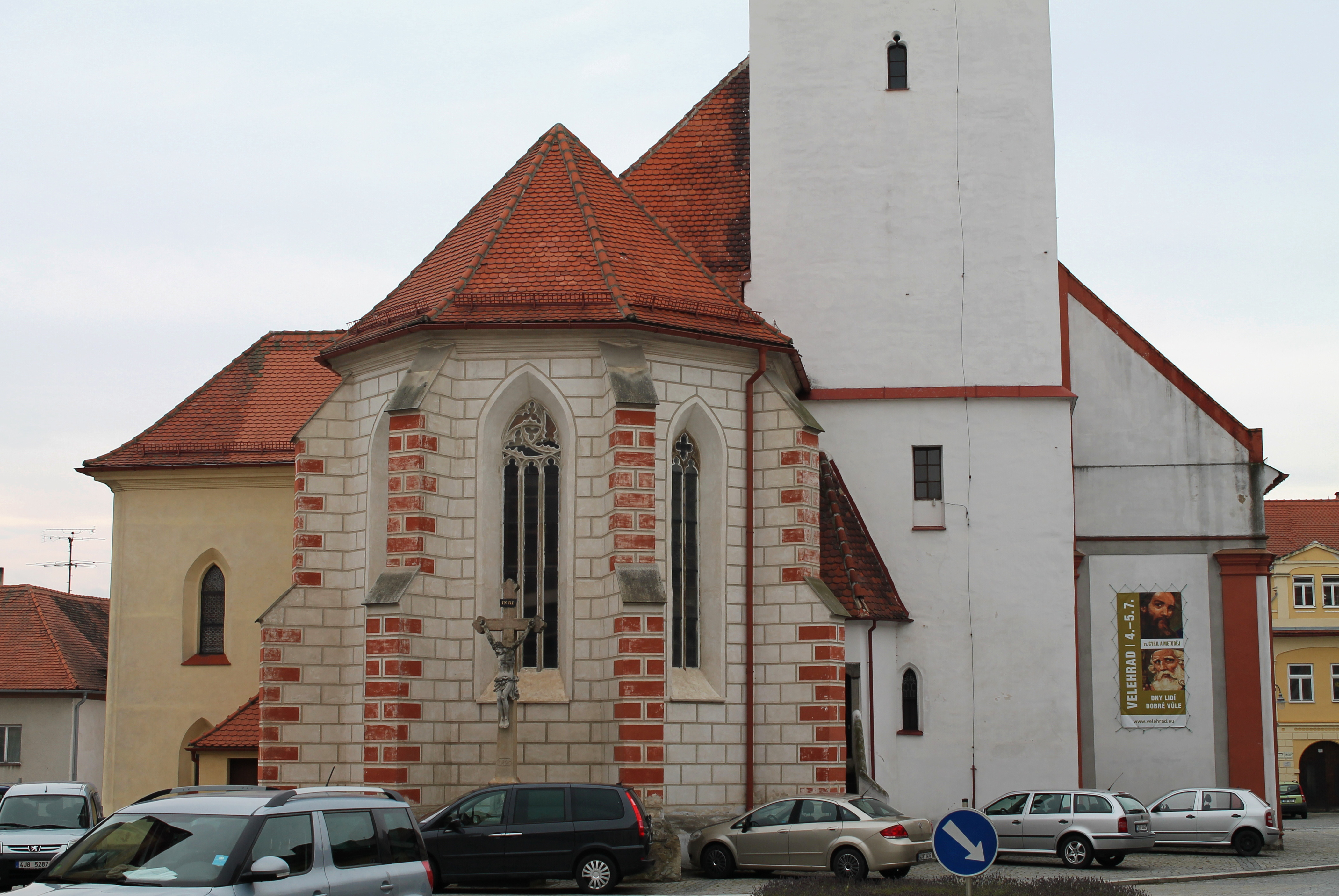 Church of Saint Stanislaus, Jemnice, Třebíč District, Czech Republic